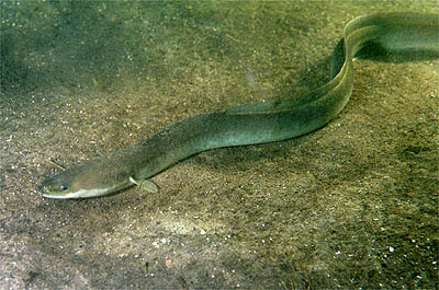 European eel (Anguilla anguilla) from nl wikipedia